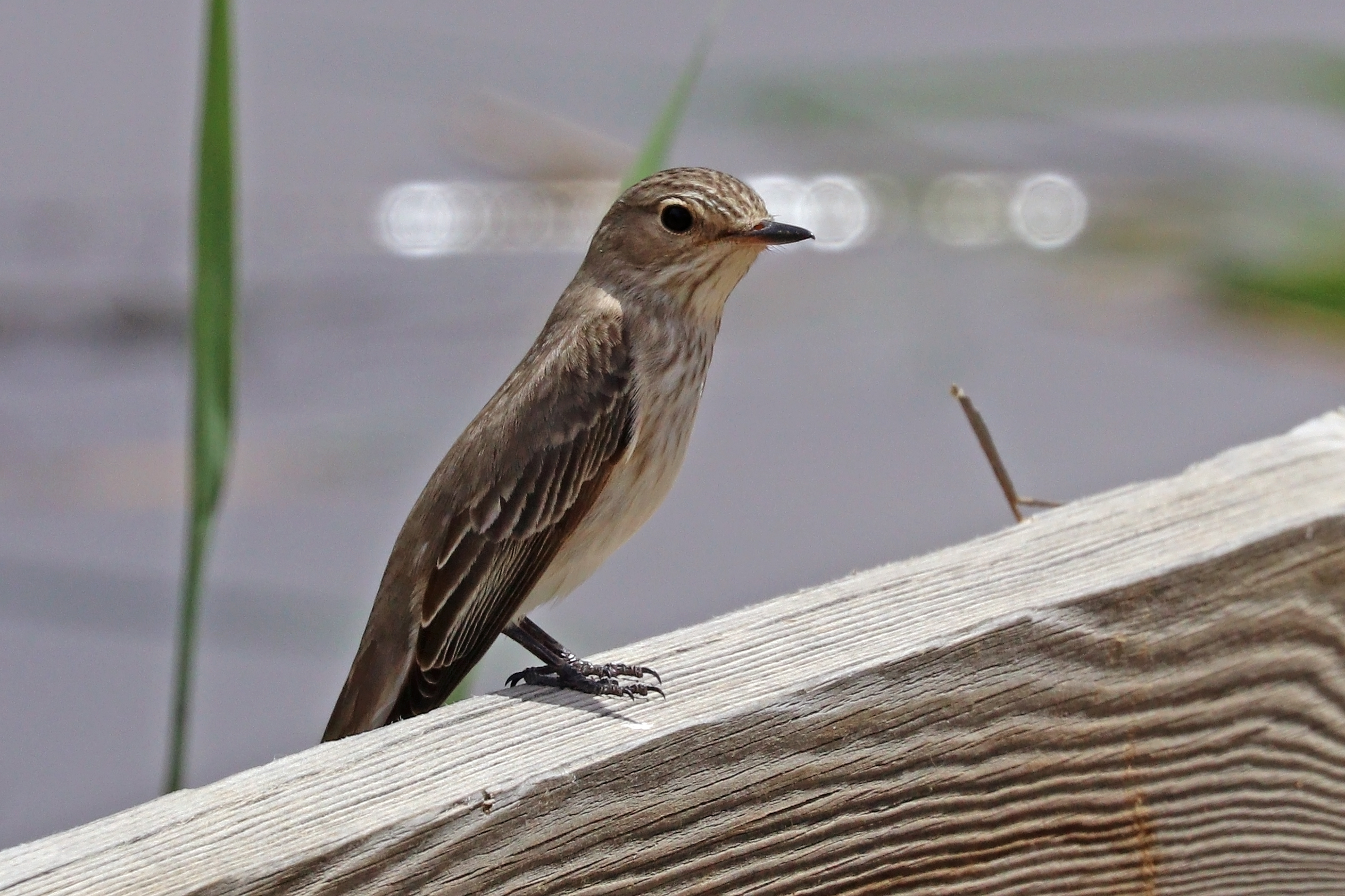 Spotted flycatcher (Muscicapa striata neumanni), Azrac Wetland Reserve, Jordan